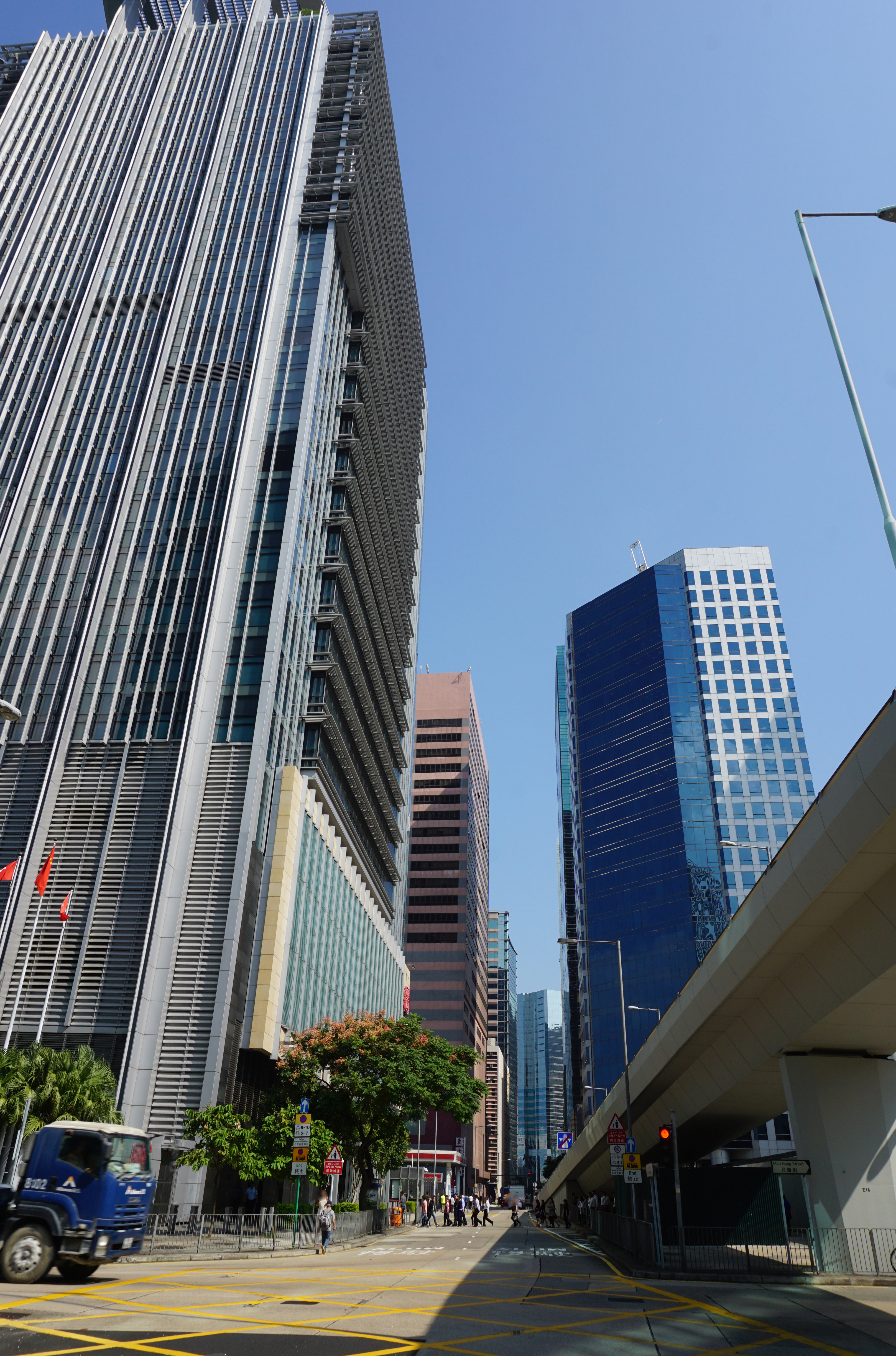 Java Road in North Point, Hong Kong.